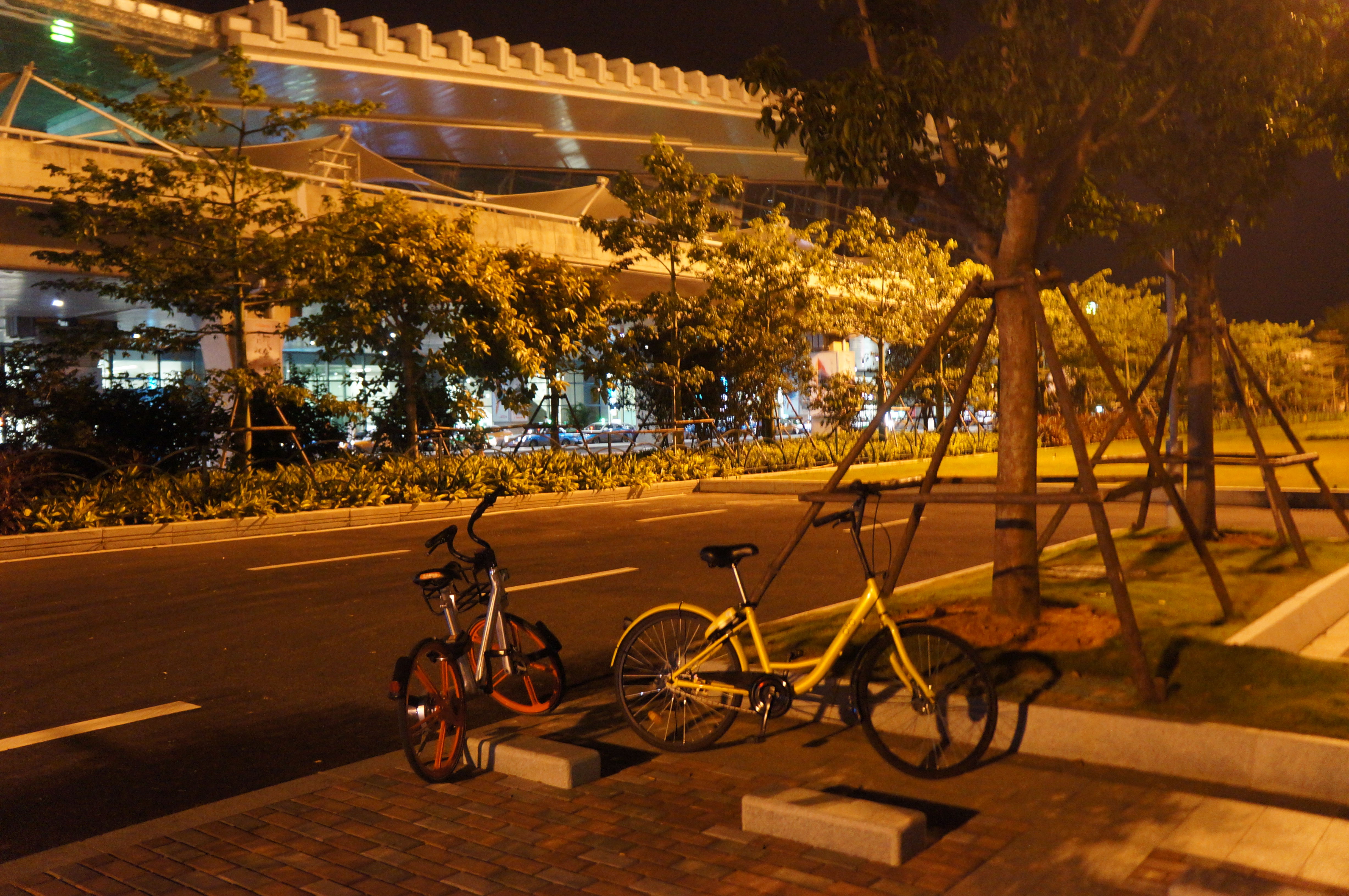 201708 Mobikes and ofo at XMN T4